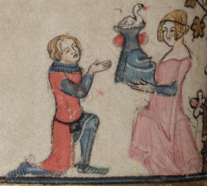 A kneeling knight (left), wearing a red sleeveless surcoat over his armour, received a swan-crested helm from a standing lady (right) in a pink dress. Detail of a miniature from a manuscript of the Romance of Alexander.